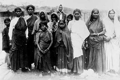 Indian female "Coolie woolwashers" in 19th century South Africa. Image published in 19th century - no copyright.